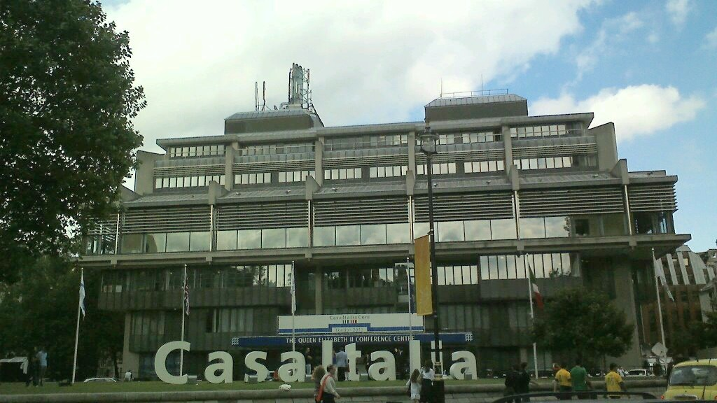 Casa Italia during London 2012 Olympic games